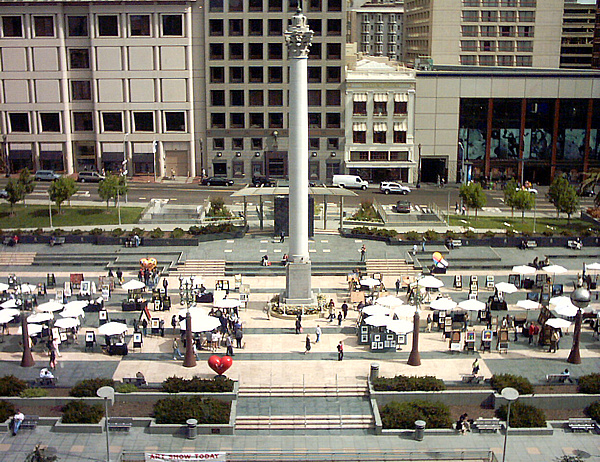 Union Square (San Francisco) as seen from the adjacent Macy's West flagship department store. At the time the Square was hosting an art show, as is obvious from the various artworks on sale, and the banner announcing "ART SHOW TODAY." Photographed by user Coolcaesar on July 3, en:2004.